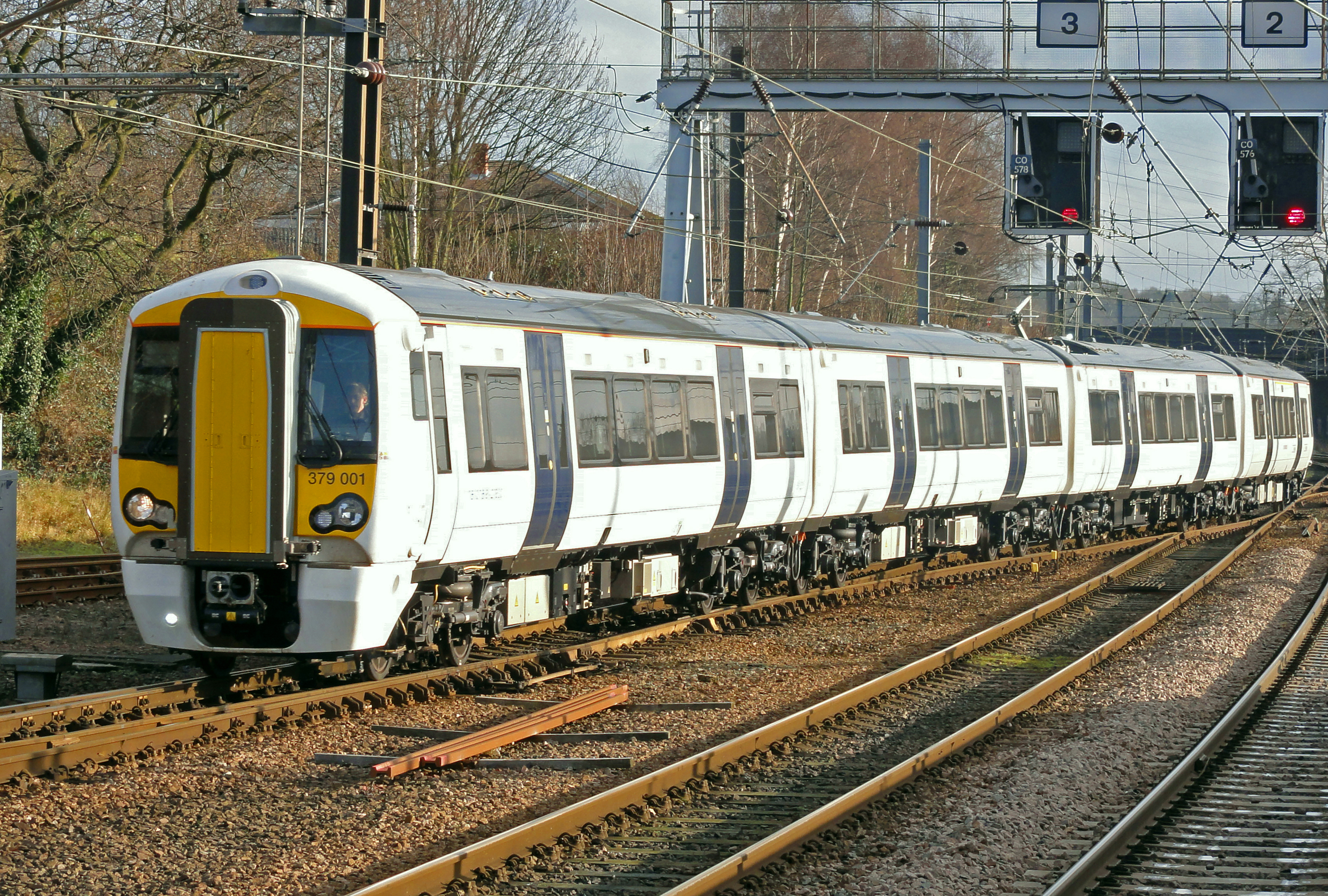 379001 arrives at Norwich on test